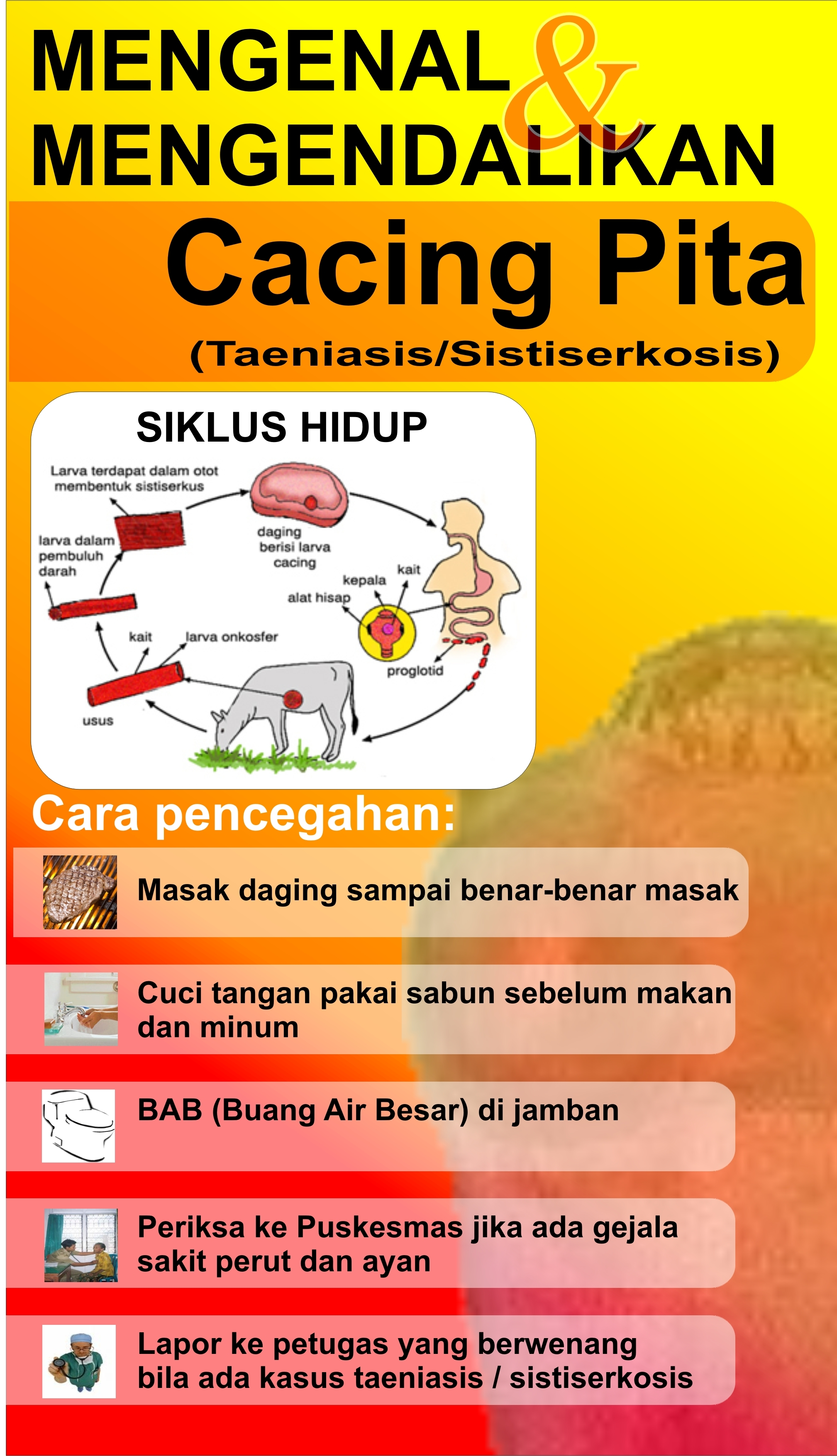 Prevention of Taeniasis/cystisercosis in Indonesia Language